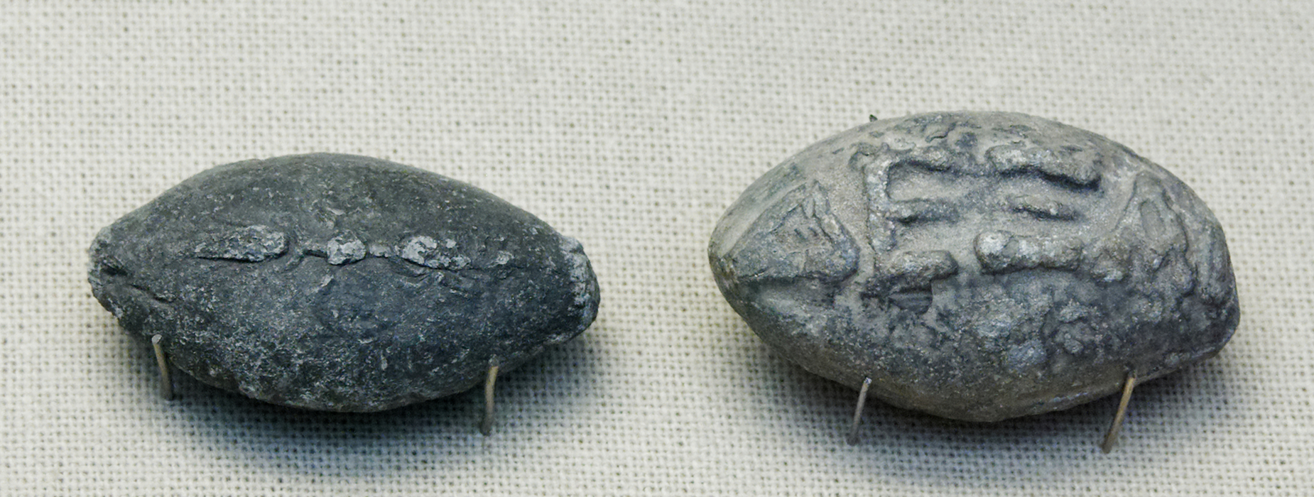 Ancient Greek sling bullets with engravings. One side depicts a winged thunderbolt, and the other, the Greek inscription “take that” (ΔΕΞΑΙ) in high relief.